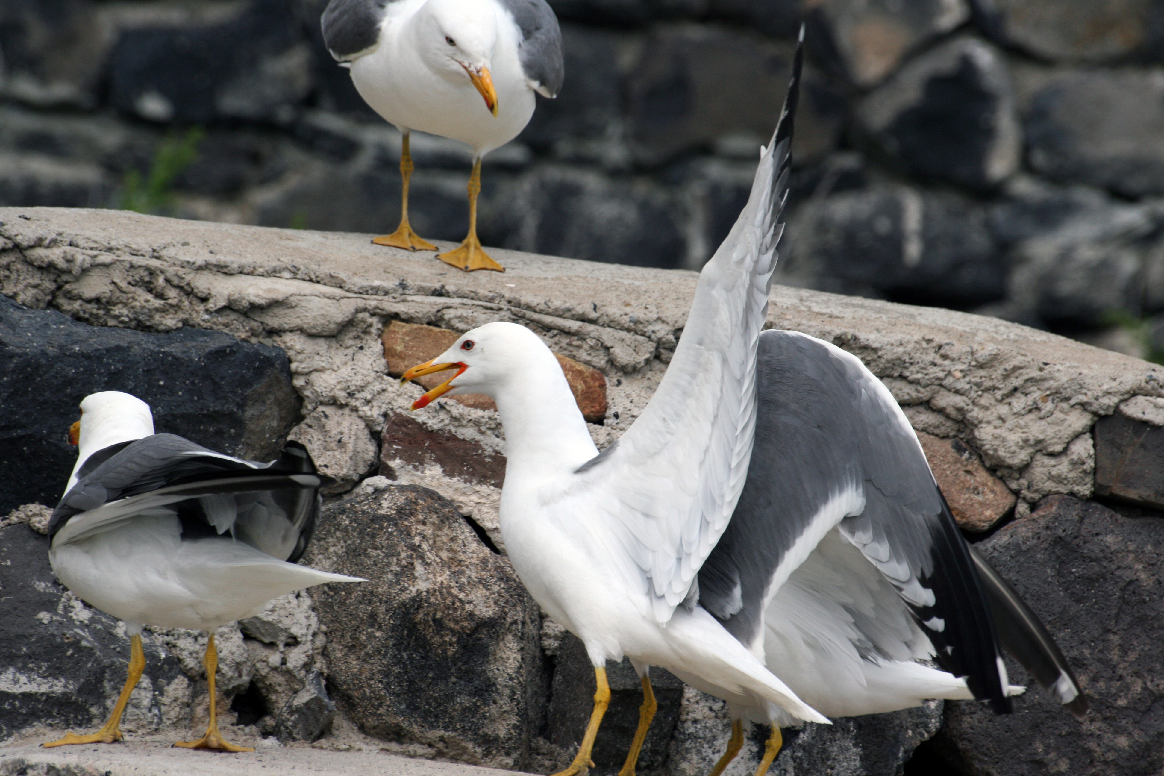 Armenian Gulls fighting near Sevanavank